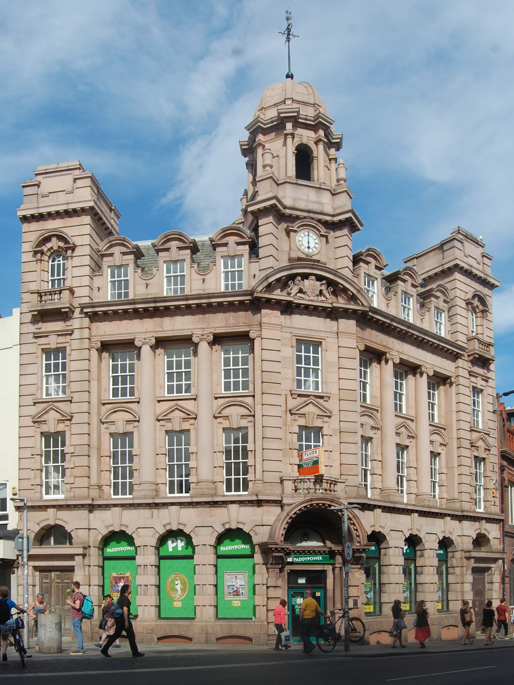 Former Royal Assurance Company offices, 163 North Street, Brighton, City of Brighton and Hove, England. Designed in the Edwardian Baroque style by Clayton & Black in 1904.